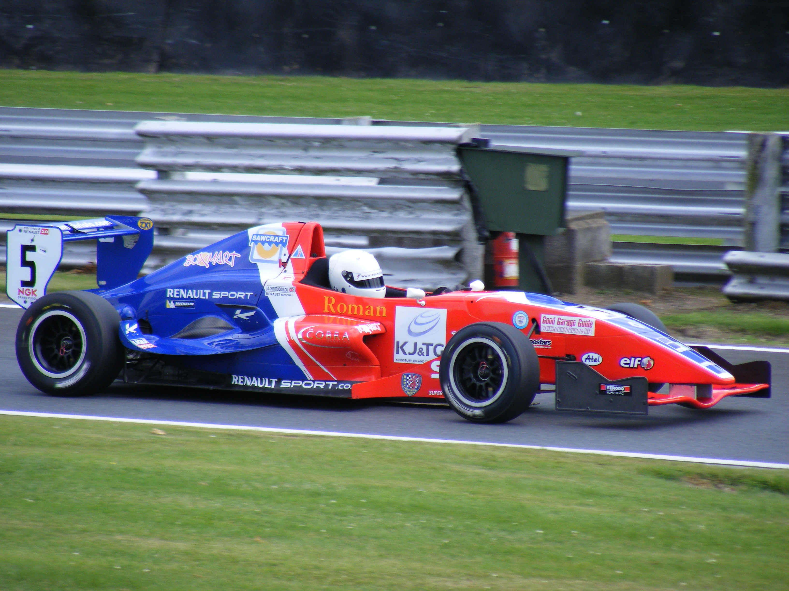 Adam Christodoulou exits the pit lane at Oulton Park to begin his qualifying session.